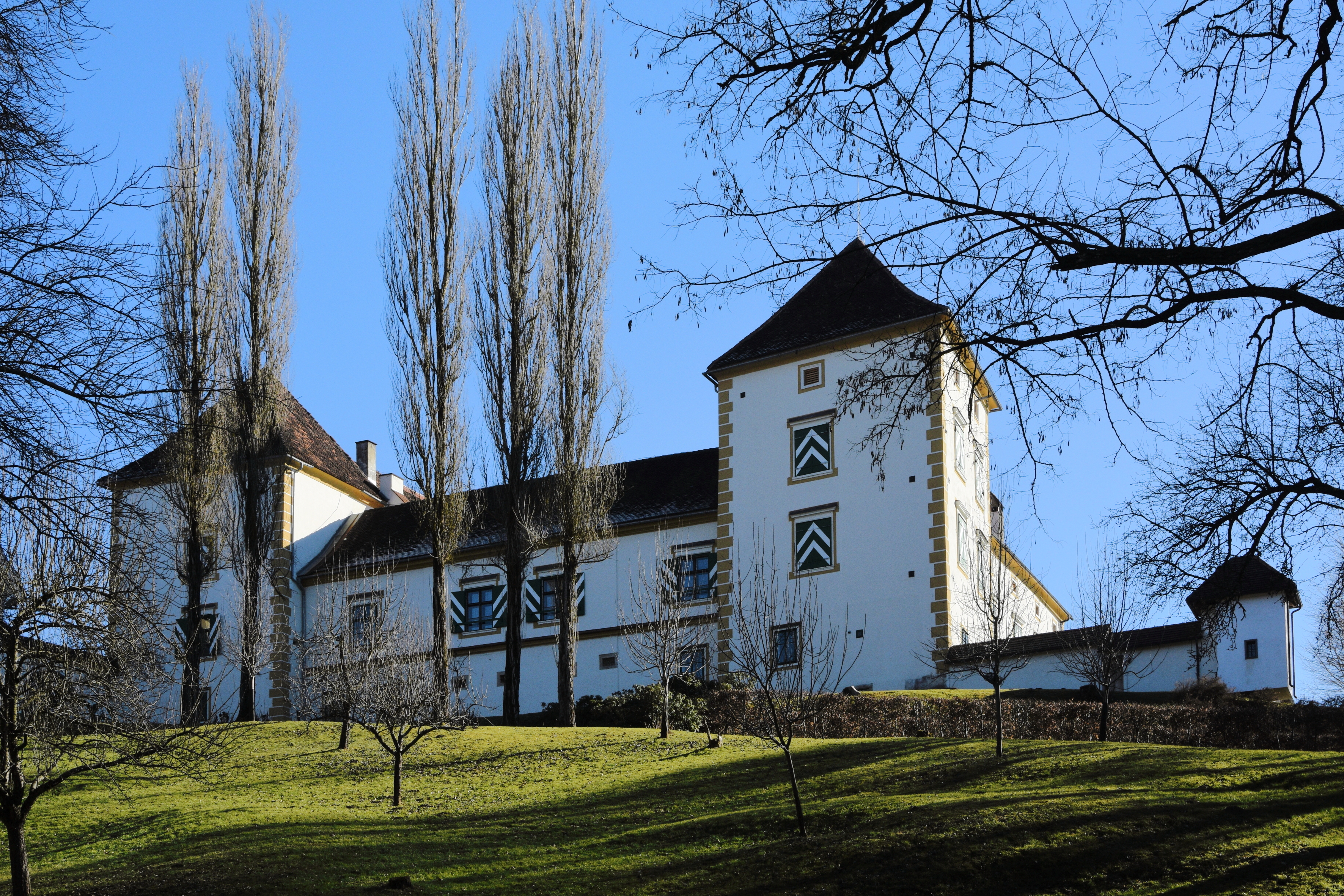 Castle Frauheim